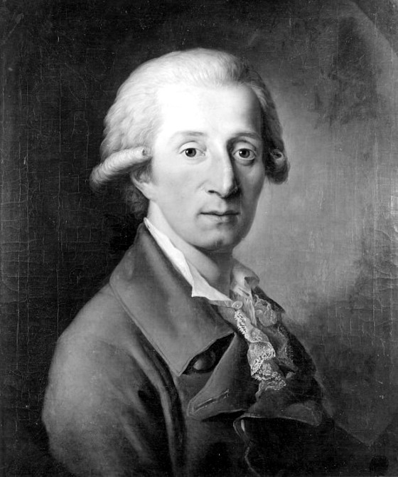 Depicted person: Franz Anton Hoffmeister